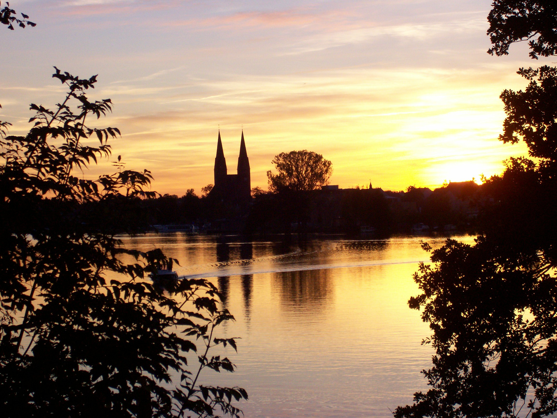 Viewing Old monastry Church of the Holy Trinity in the center of Neuruppin